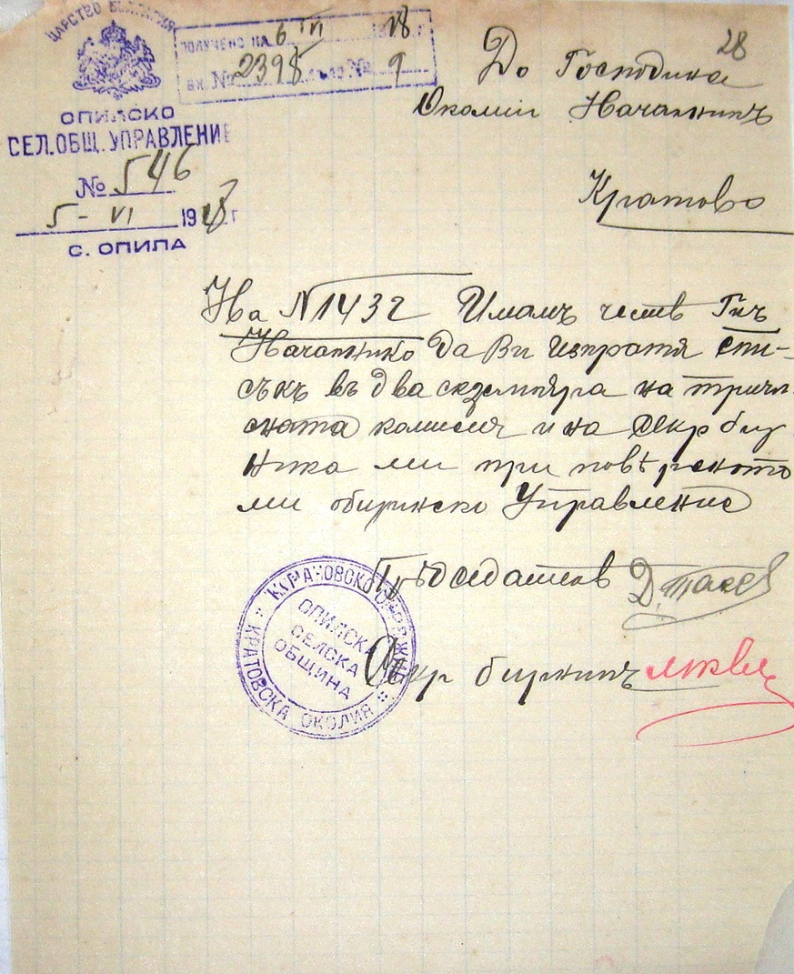 Document stamped by rural municipality of Opila, Jun 5, 1918. This media file is produced by Wikipedian in Residence in Category:Wikipedian in Residence at DARM in 2016.